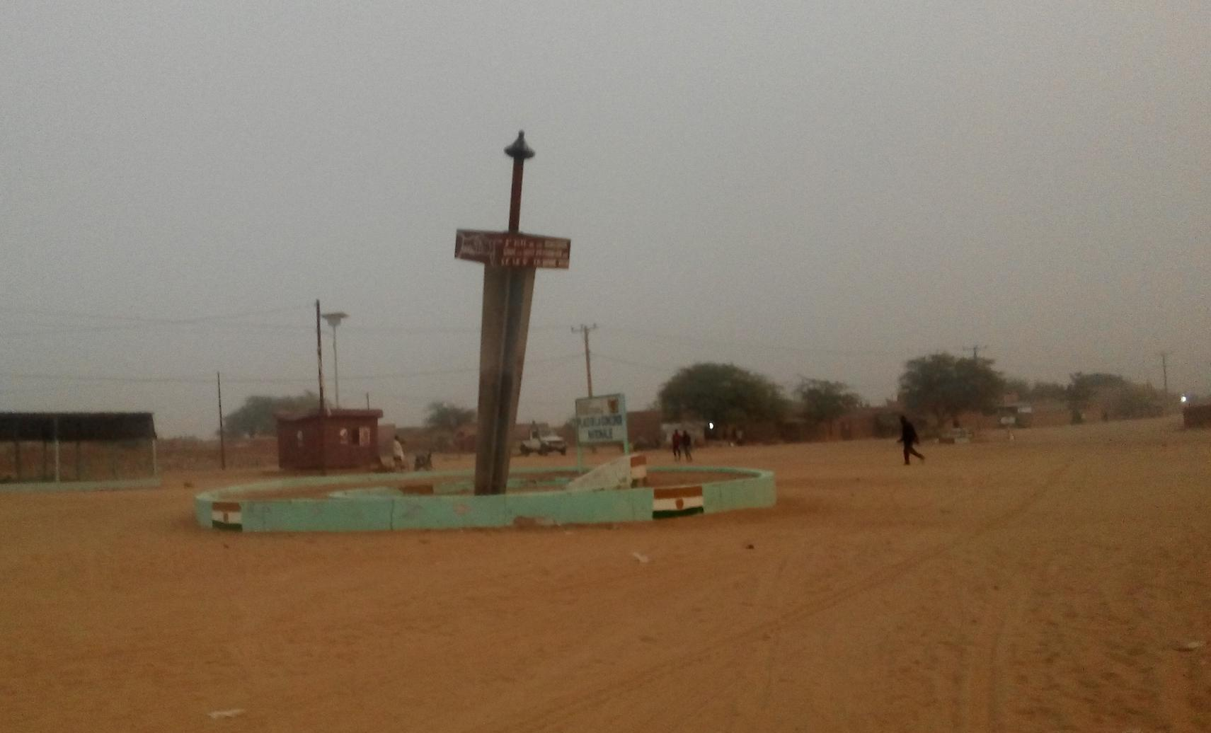 Place de la Concorde Nationale. Roundabout with Niger flag in Tchintabaraden, Tahoua Region, Niger.